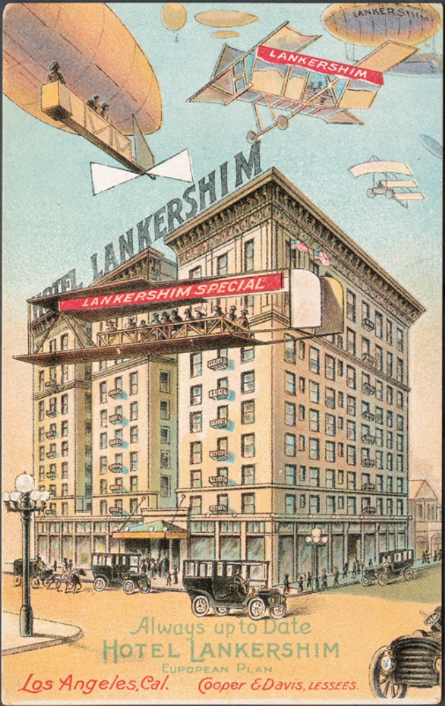 Hotel Lankershim at Southeast corner 7th Street and Broadway, Los Angeles. Completed 1905. (now gone) . James Rojas Collecton